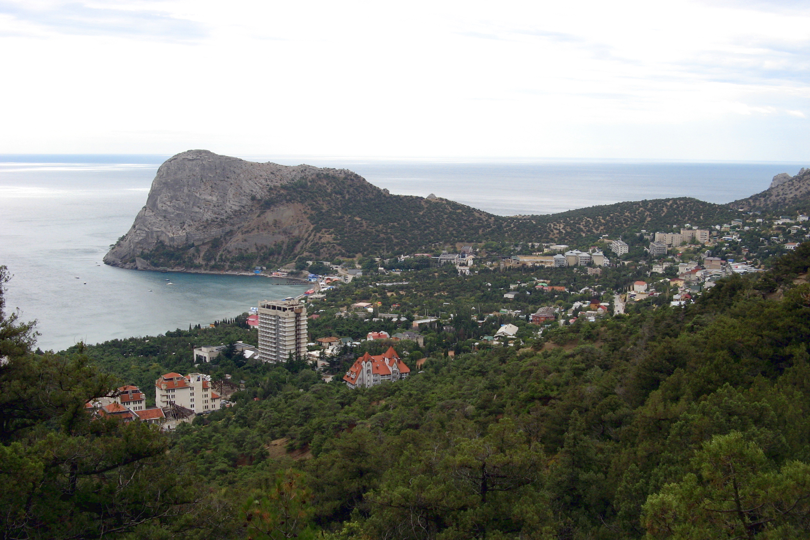 Novyi Svit from North-East.